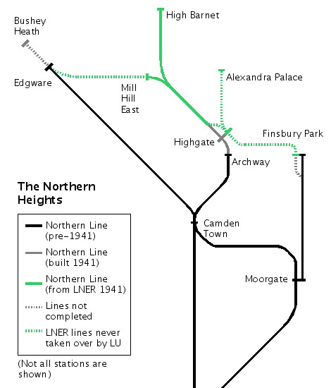 Diagram of the "Northern Heights" extensions to the Northern Line of the London Underground, showing both completed and uncompleted elements.